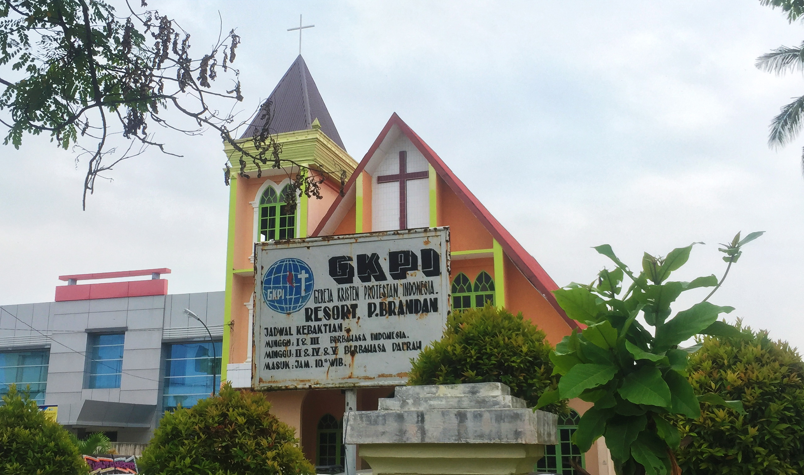 GKPI Pangkalan Brandan, Res. Pangkalan Brandan, Church in Pangkalan Brandan, Babalan, Langkat